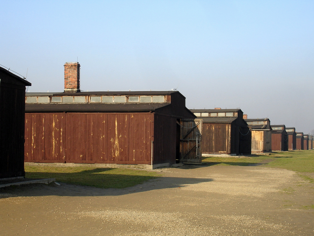 Barracks Auschwitz ll (Birkenau)